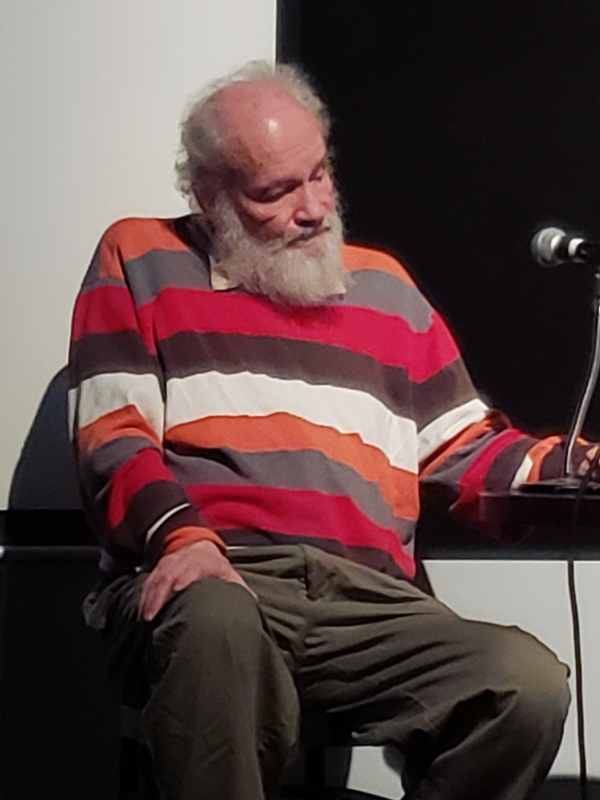 Mike Kuchar at a Q&A at the Wattis Institute for Contemporary Arts in San Francisco, California, United States